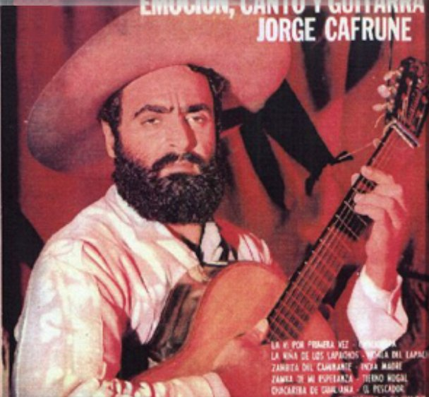 Jorge Cafrune. Folk musician. Argentina